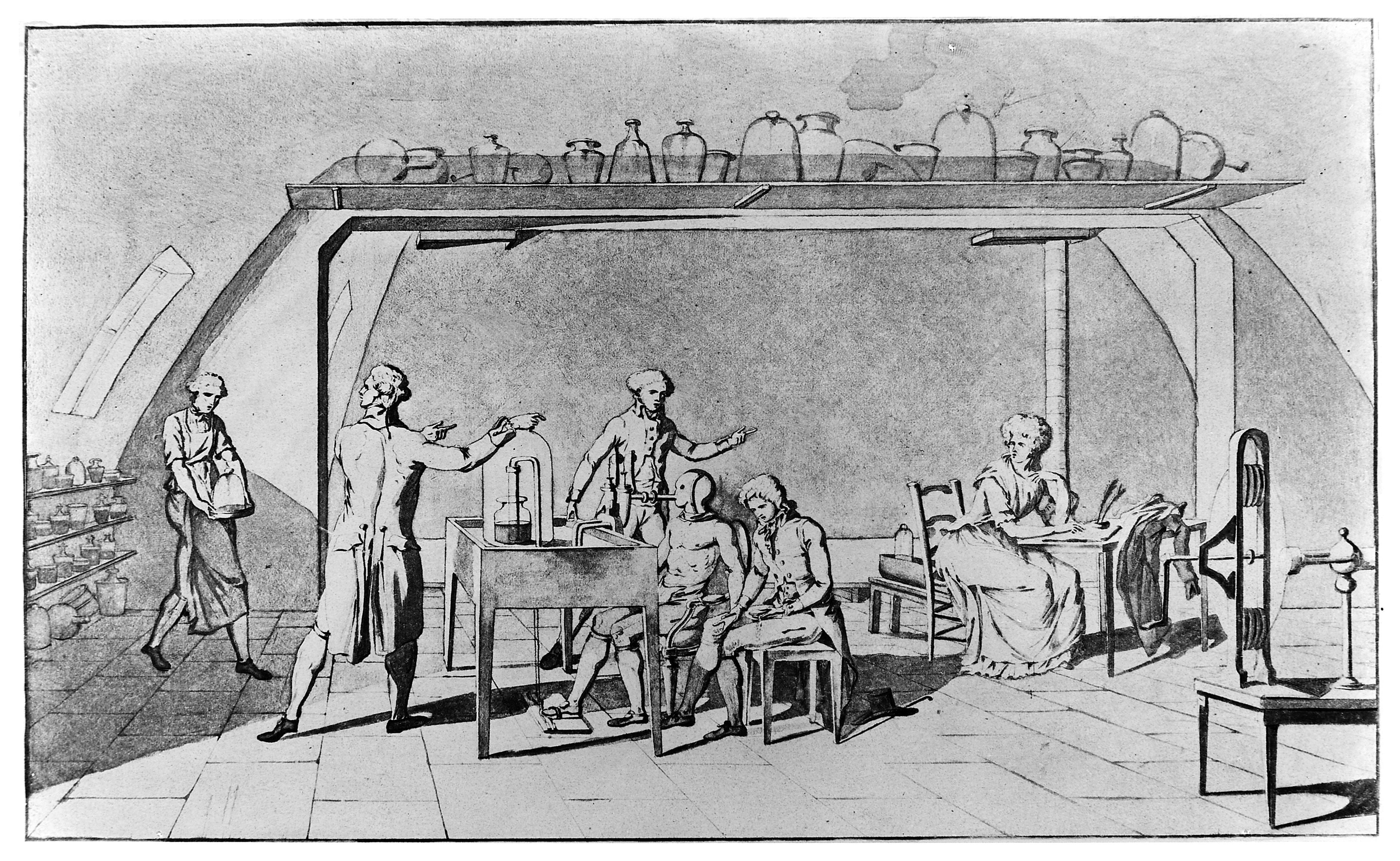 Drawing with wash: 'Lavoisier experimenting in his laboratory' Iconographic Collections Keywords: Lavoisier, Antoine Laurent; Alchemy